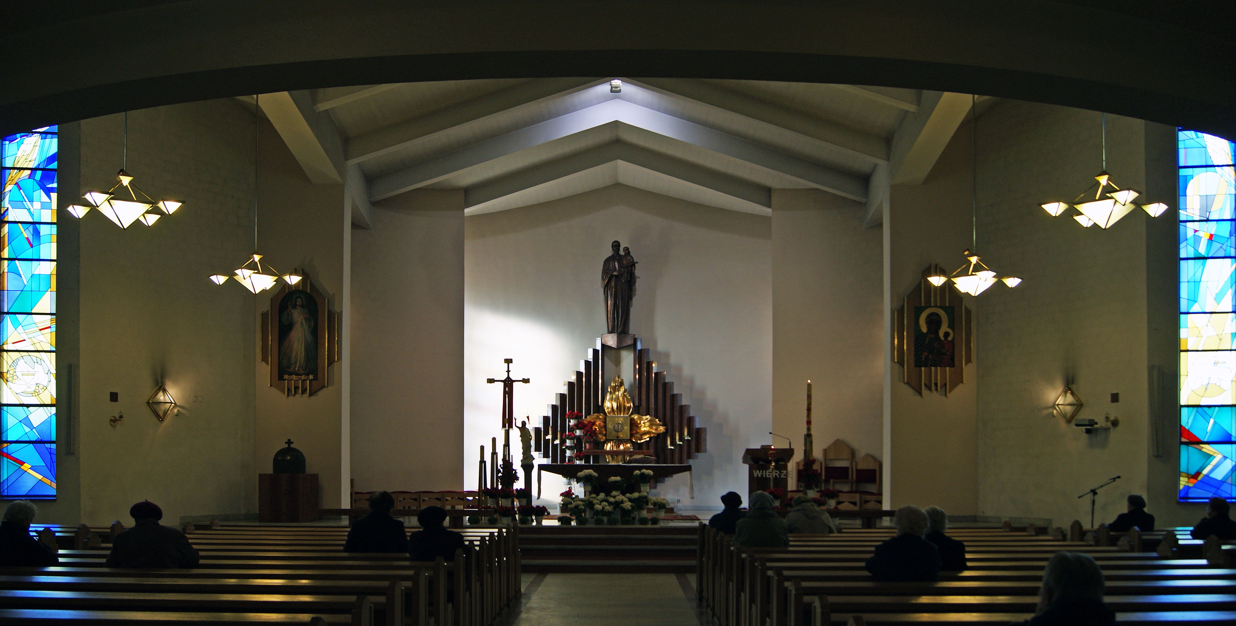 Church of St. Joseph the Worker (interior), Młoszowa village, Chrzanów County, Lesser Poland Voivodeship, Poland